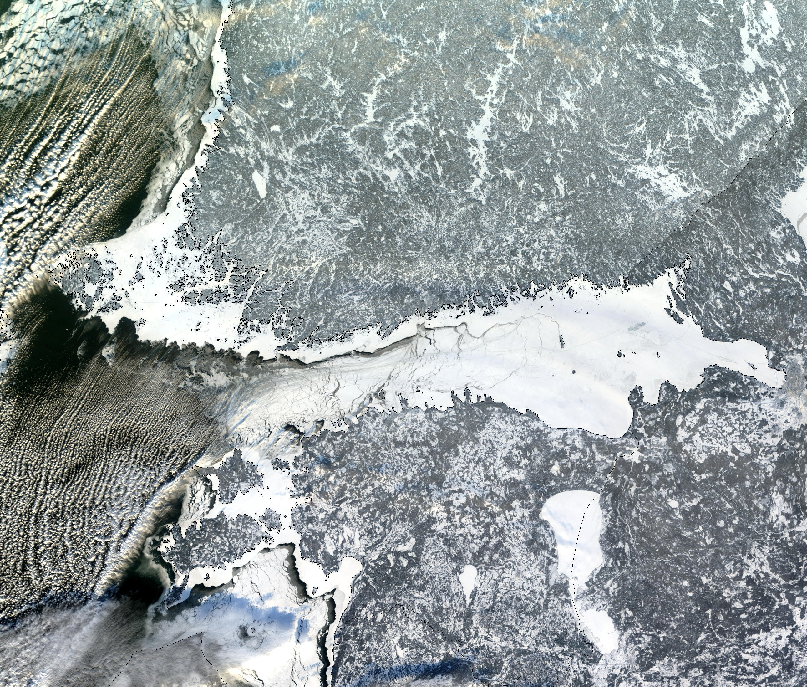 Gulf of Finland. The bitter cold snap bearing down on northwest Russia has also locked the Gulf of Finland up in ice. This true-color Moderate Resolution Imaging Spectroradiometer (MODIS) image from January 10, 2003, shows the frozen Gulf, which is bound at north by Finland, at south by Estonia, and on the east by Russia. At the far eastern end of the Gulf lies the city of St. Petersburg, an important port for regional trade. Now completely frozen, the port is holding some 26 ships locked up in ice. The faint gray lines running across the gulf shows the attempts by ice breakers to keep shipping lanes open. There is concern that many ships are not prepared for such dangerous ice conditions, and there is particular concern that oil tankers may be damaged and begin to leak.